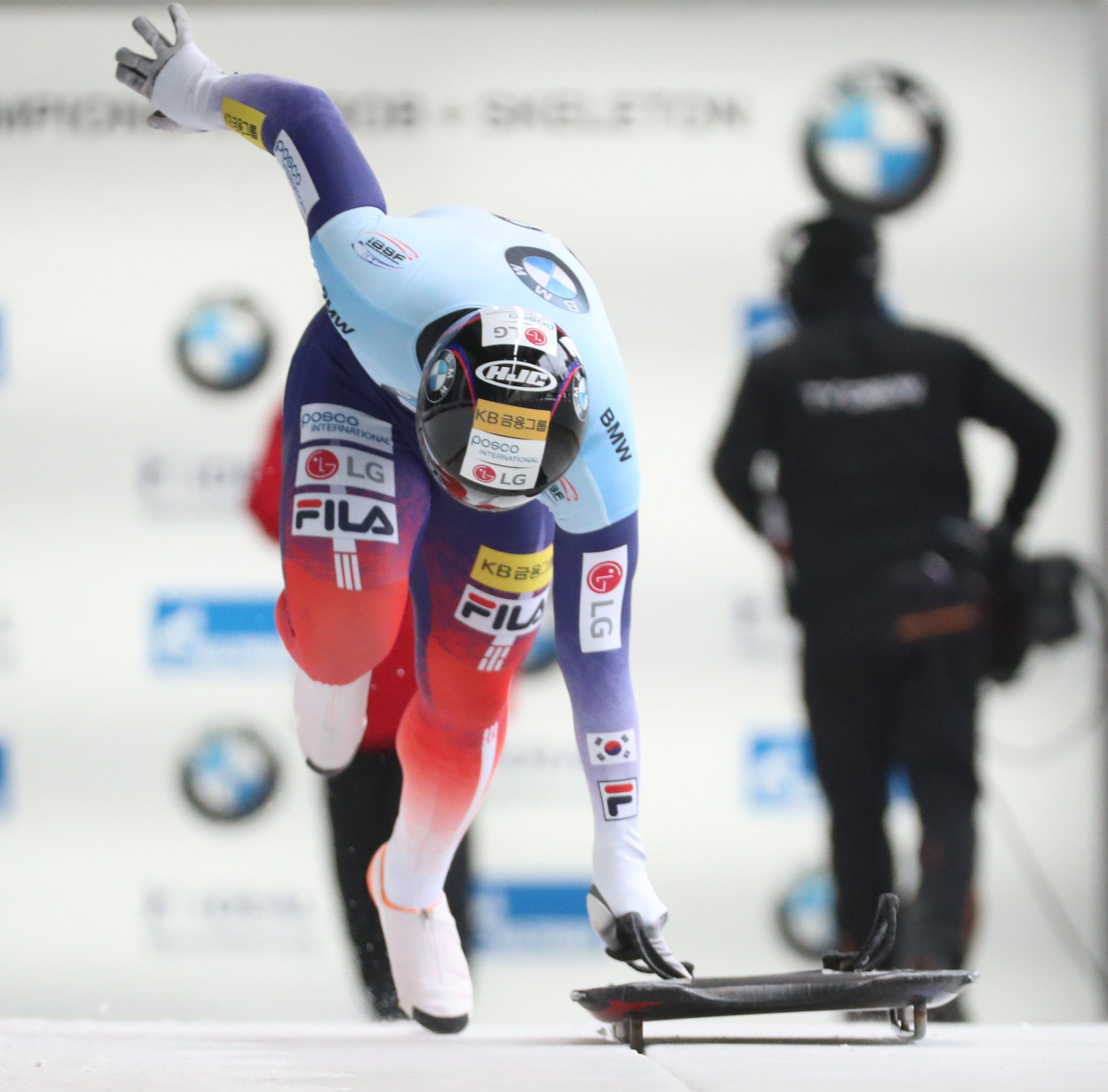 1st run at the Men's Skeleton at the Bobsleigh and Skeleton World Championships 2020 in Altenberg